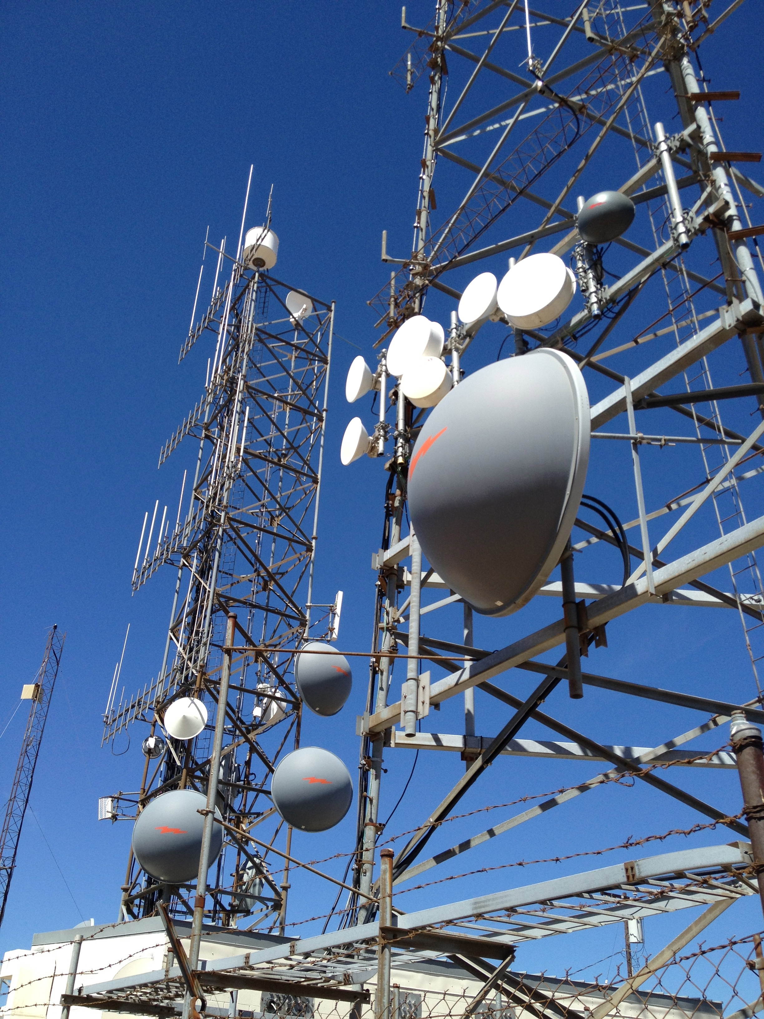 This shows multiple antennas of multiple varieties collocated on a couple of towers.